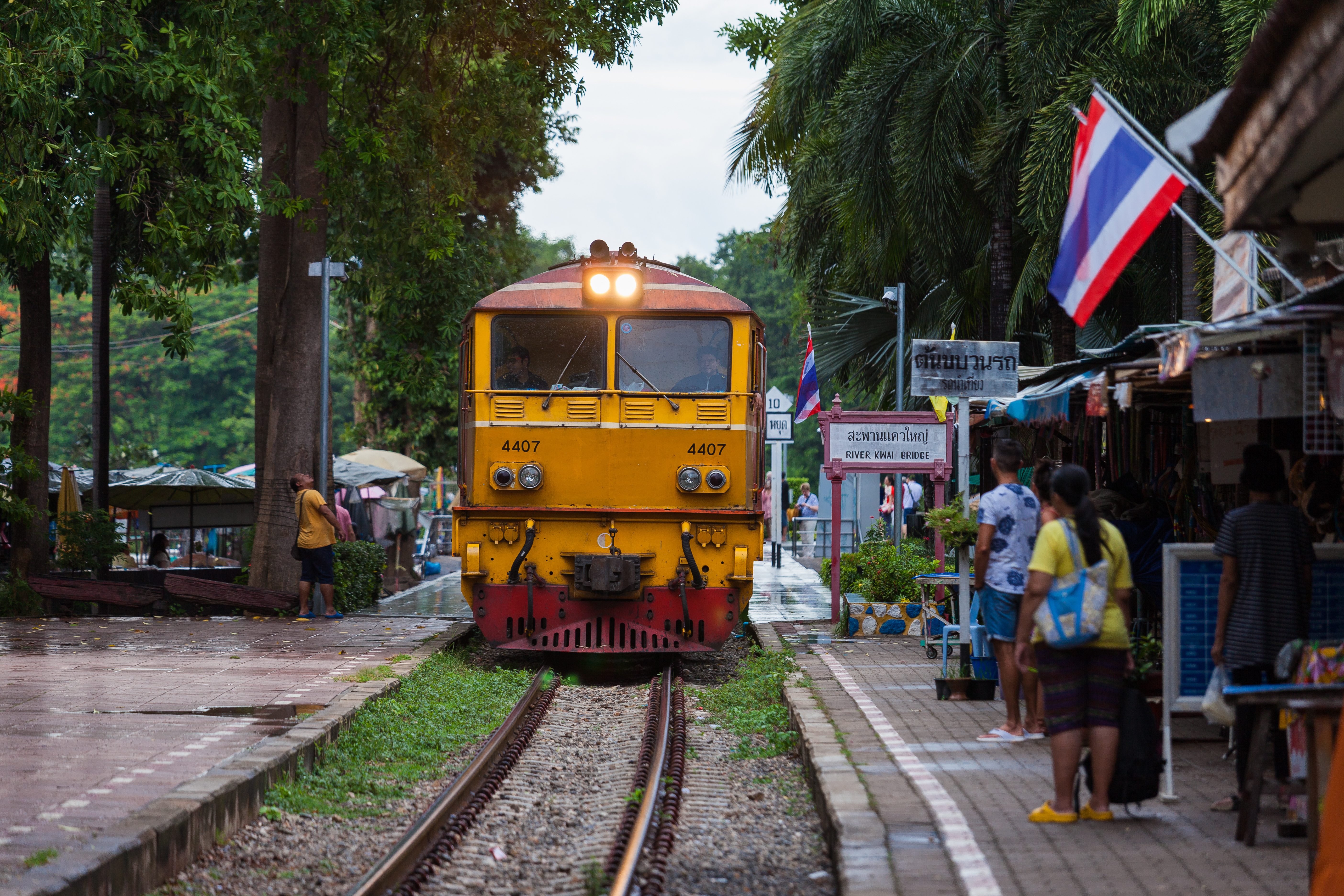 River Kwai Bridge Railway Station, Kanchanaburi.